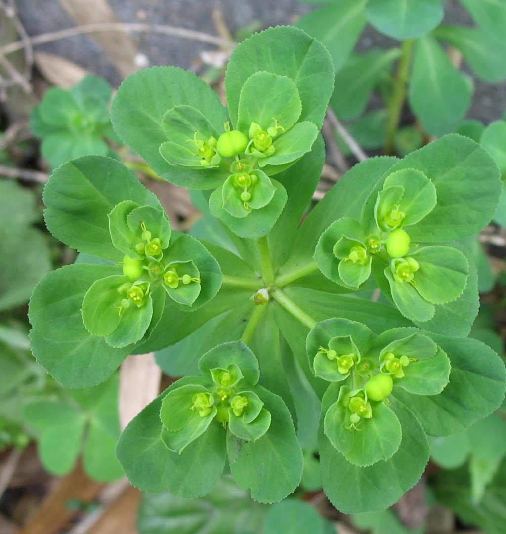 Photograph of Euphorbia helioscopia, taken in Machida city, Tokyo, Japan. Croped & resized.